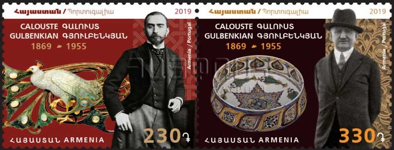 Armenia-Portugal joint issue. 150th anniversary of Calouste Gulbenkian Date of issue: March 26, 2019 Designers: Vahagn Mkrtchyan (Armenia), "Atelier B2" company (Portugal) Printing house: Cartor, France Size: 40,0 x 30,0 mm Print run: 40 000 pcs